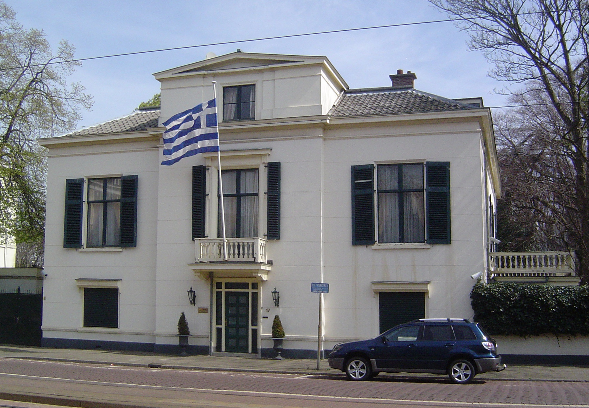 Den Haag - Alexanderstraat 17 - Rijksmonument